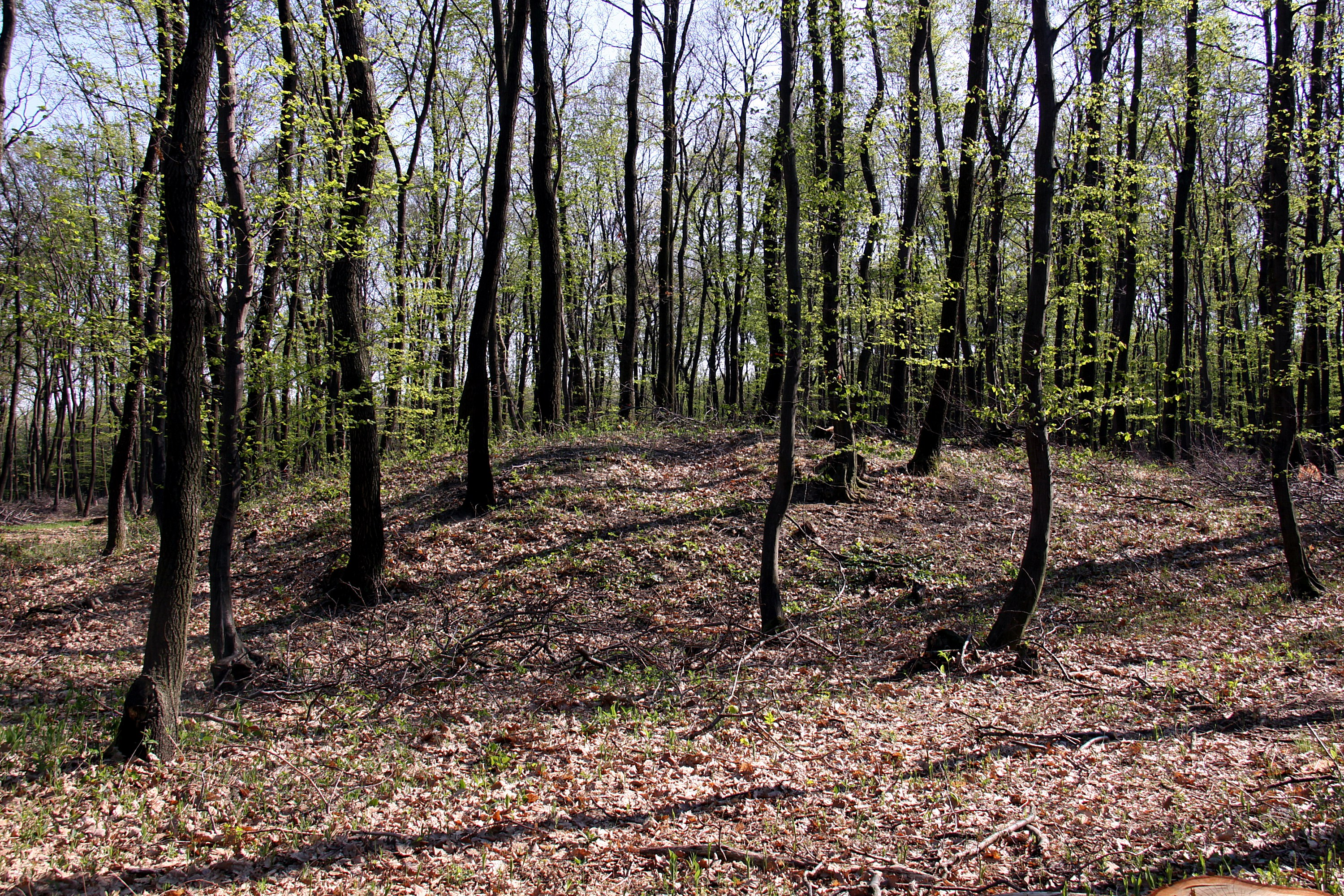 Tumulus Krippelberg - Baumgarten. Object location47° 43′ 33.97″ N, 16° 30′ 16.09″ E